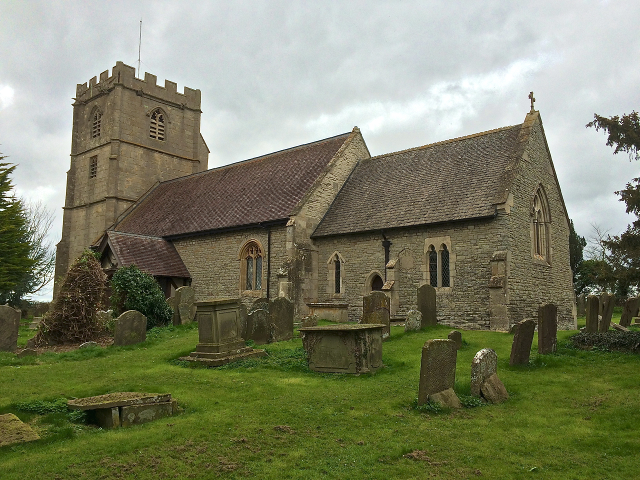 St Mary's parish church, Prior's Norton, Gloucestershire, seen from the southeast